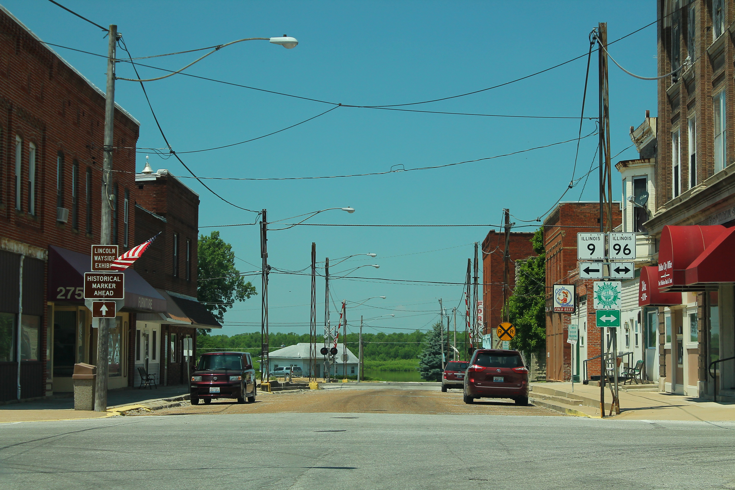 Illinois Route 9 and Illinois Route 96 in Dallas City, Illinois.